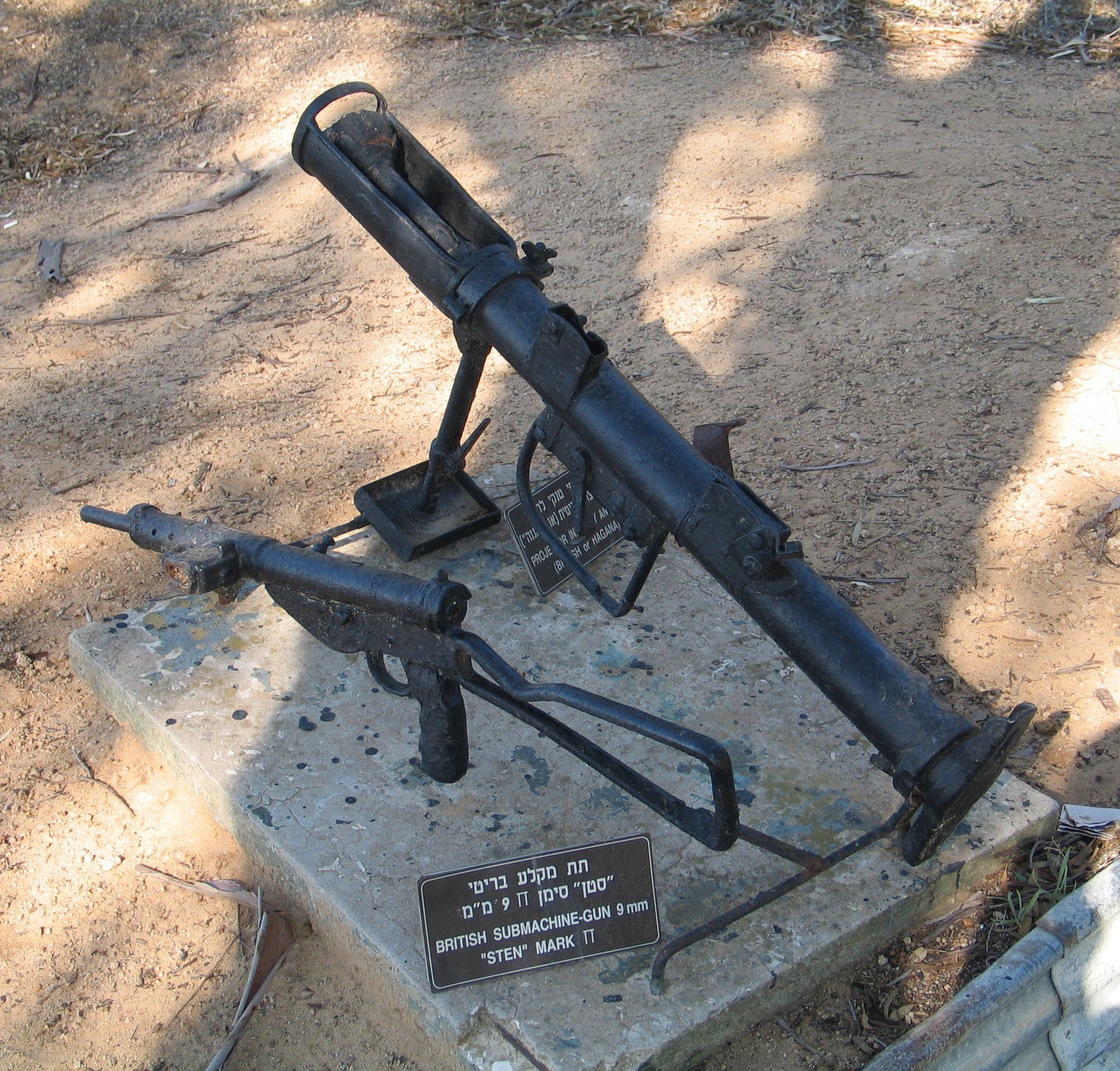 Projector, Infantry, Anti-Tank (PIAT) and Sten Mk II submachine gun at Yad Mordechai battlefield reconstruction site.